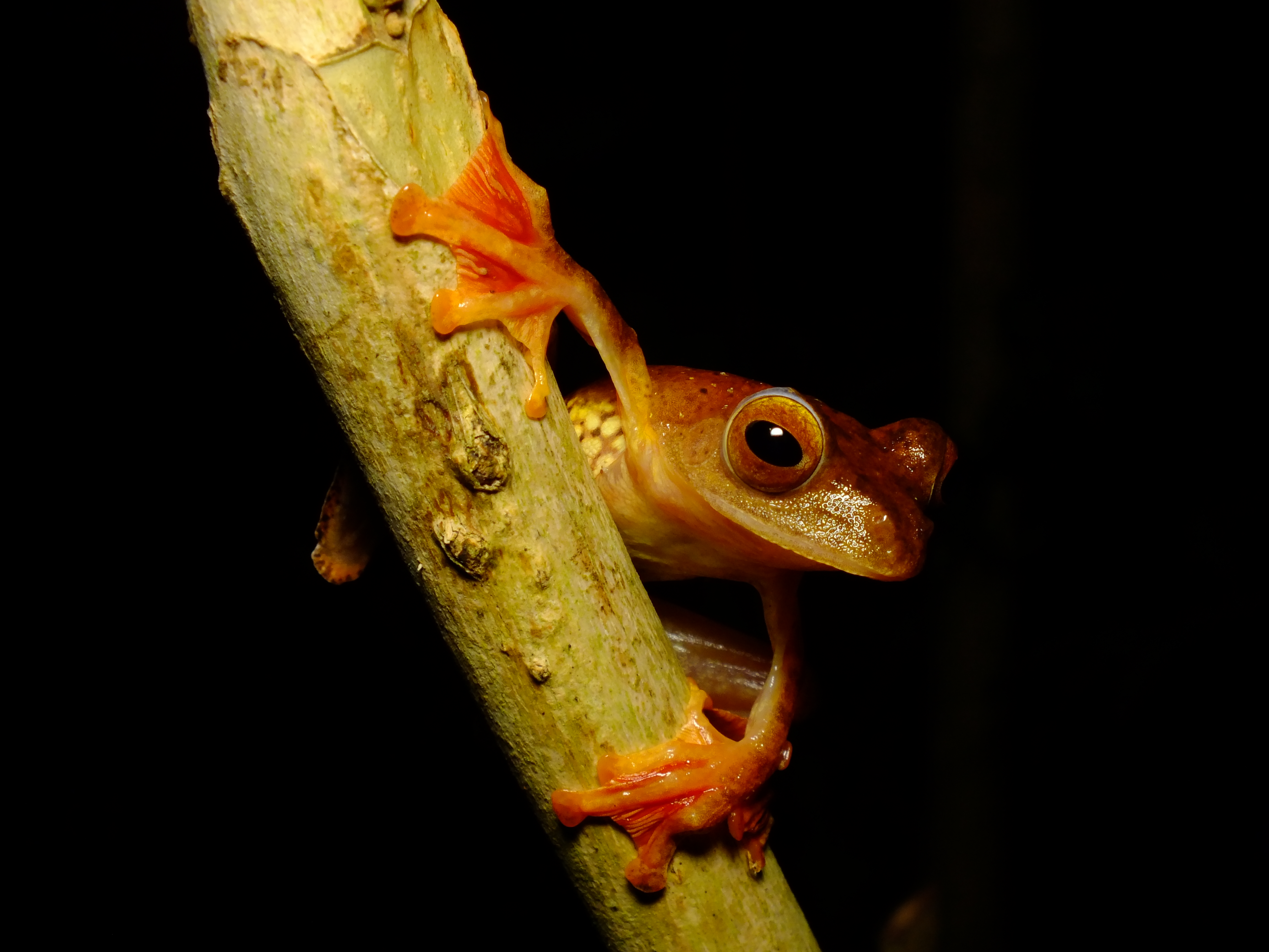 This is the picture of Harlequin Tree frog (Rhacophorus pardalis) from Sarolangun, Jambi, Indonesia